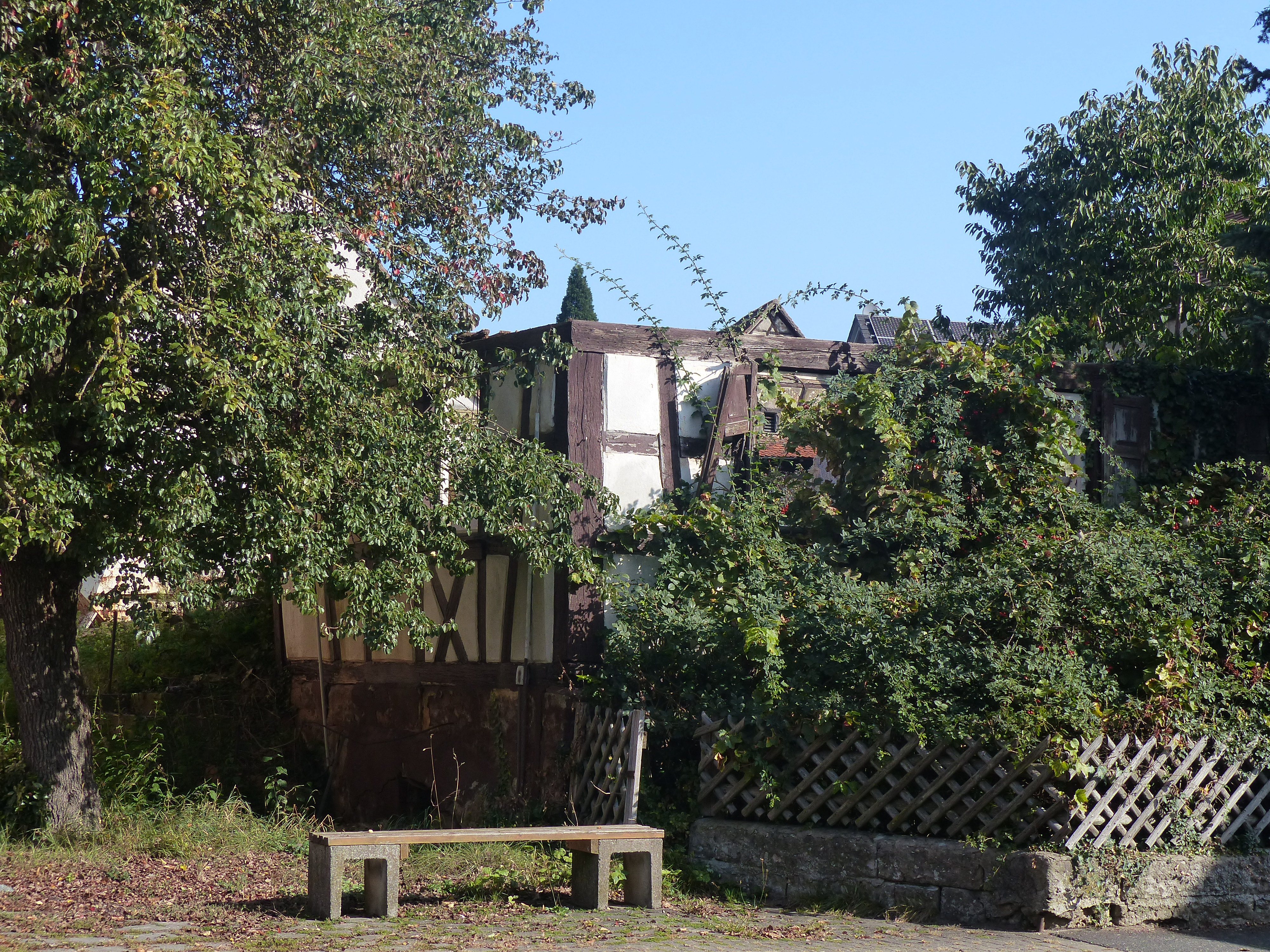 A byre-dwelling house in the village Unterstürmig, a district of the municipality of Eggolsheim.